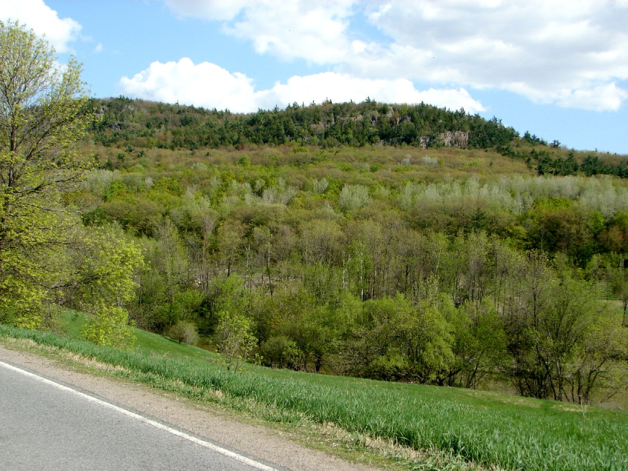 Rigaud Mountain, Quebec, Canada